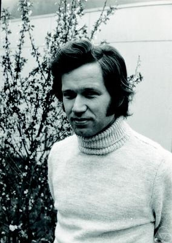 Rolf Berndt, Oberwolfach 1977